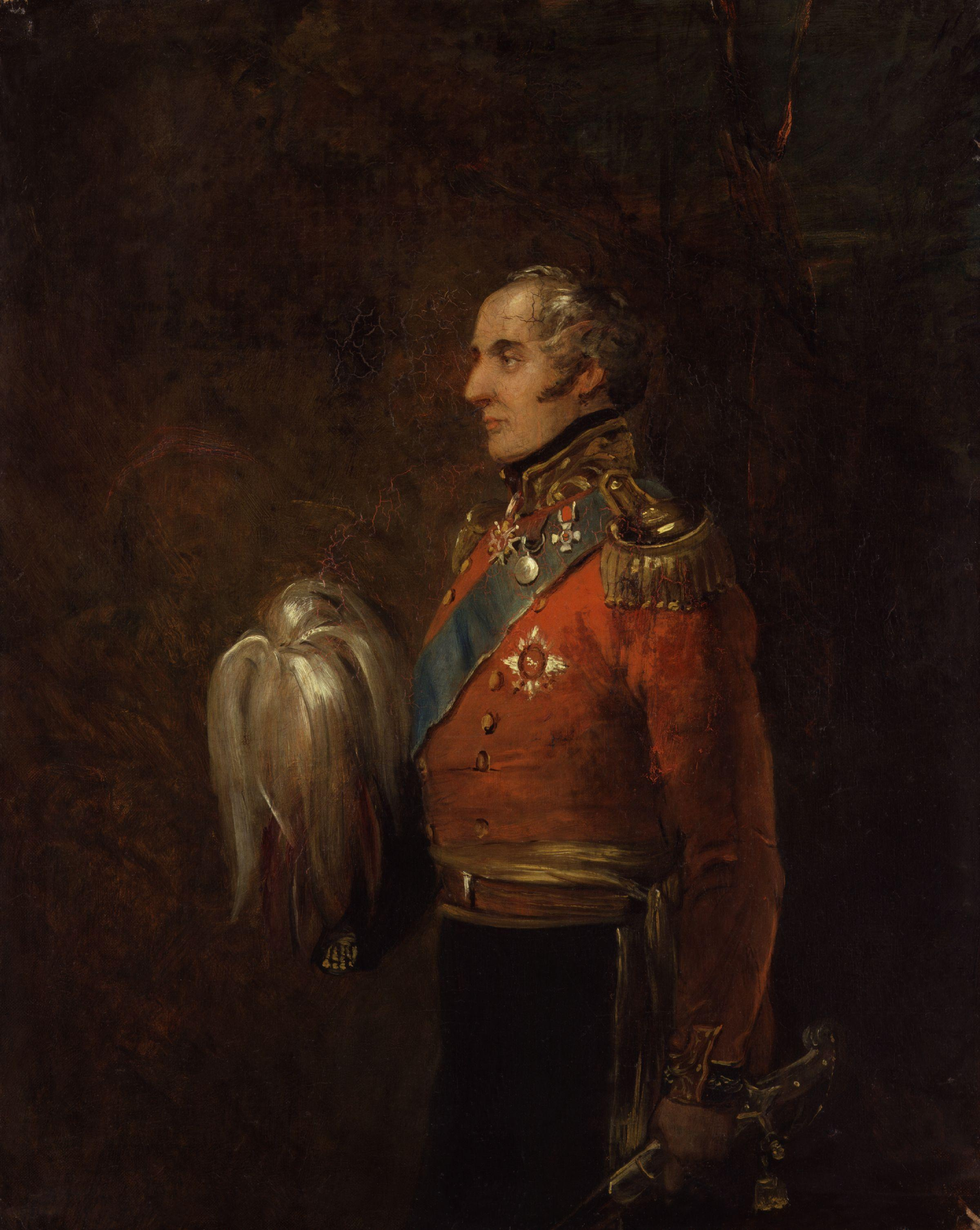 Alexander Fraser, 16th Baron Saltoun, by William Salter (died 1875). All images in this batch have been confirmed as author died before 1939 according to the official death date listed by the NPG.